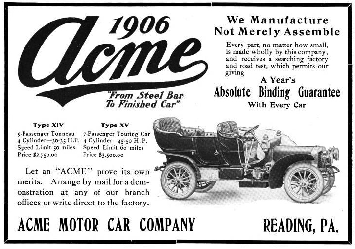 Acme Motor Car Company of Reading, Pennsylvania - 1906